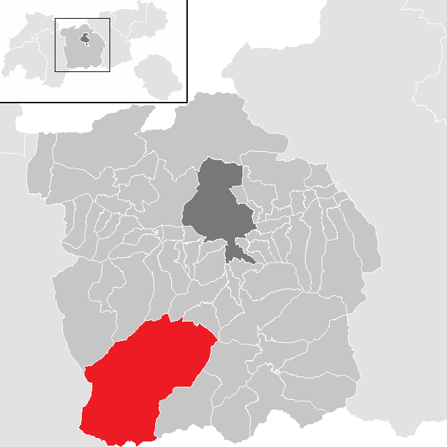 District Innsbruck Land